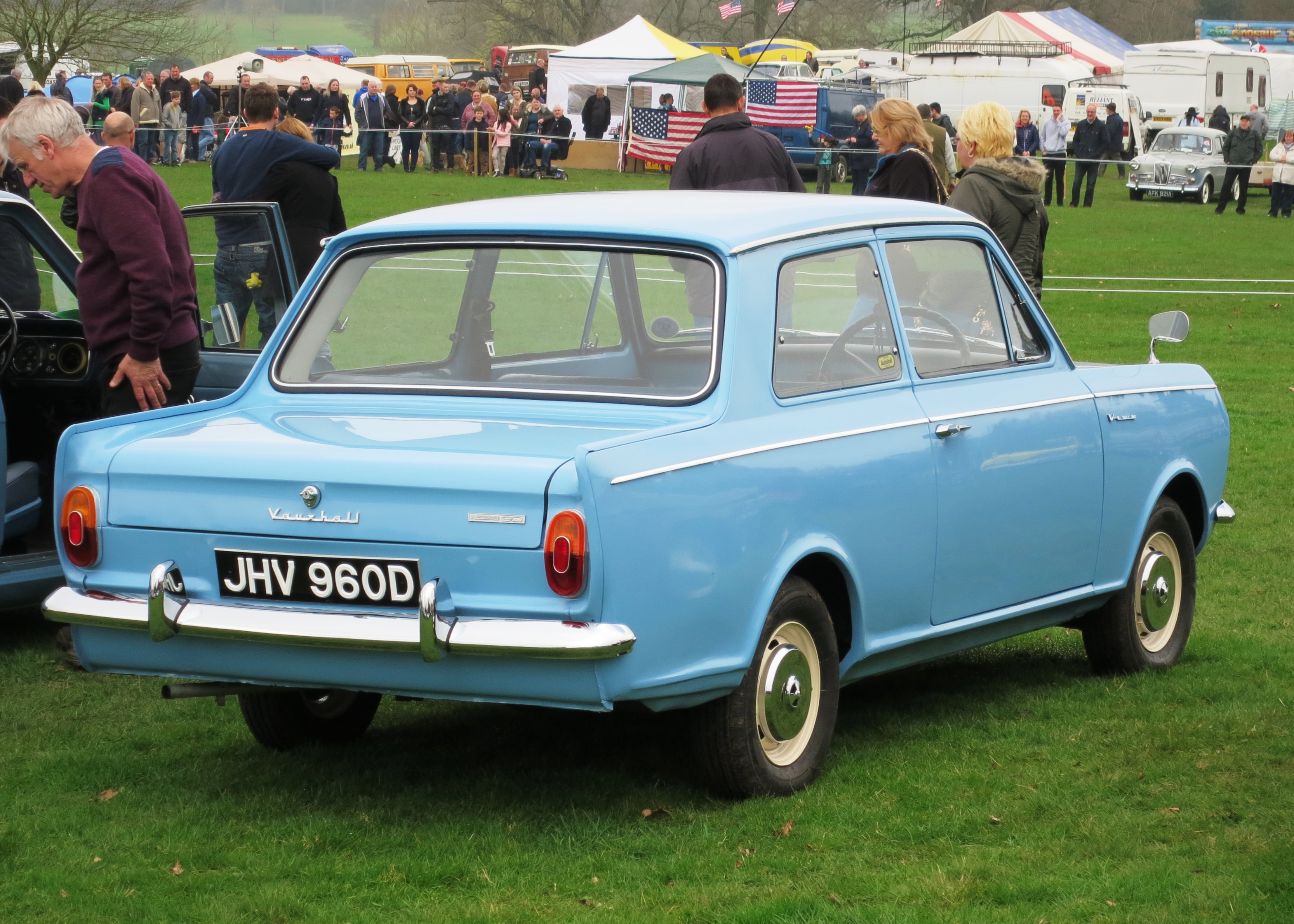 Vauxhall Viva HA (1966)